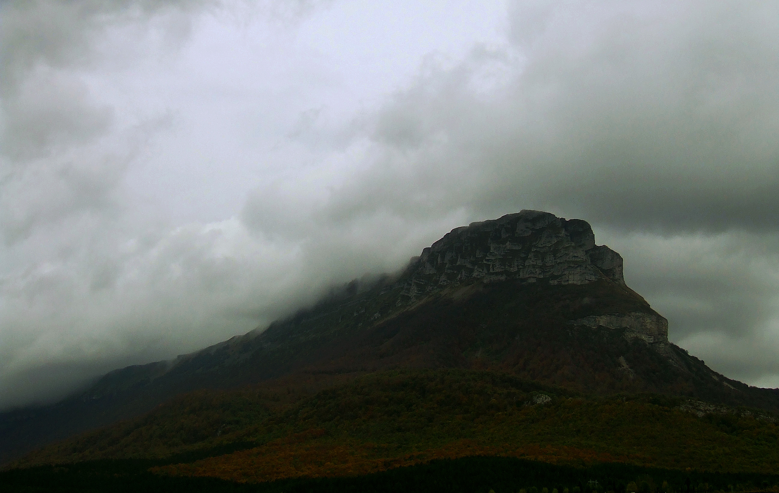 Beriain mount, in Andia, seen from Lakuntza, Navarre, Basque Country.